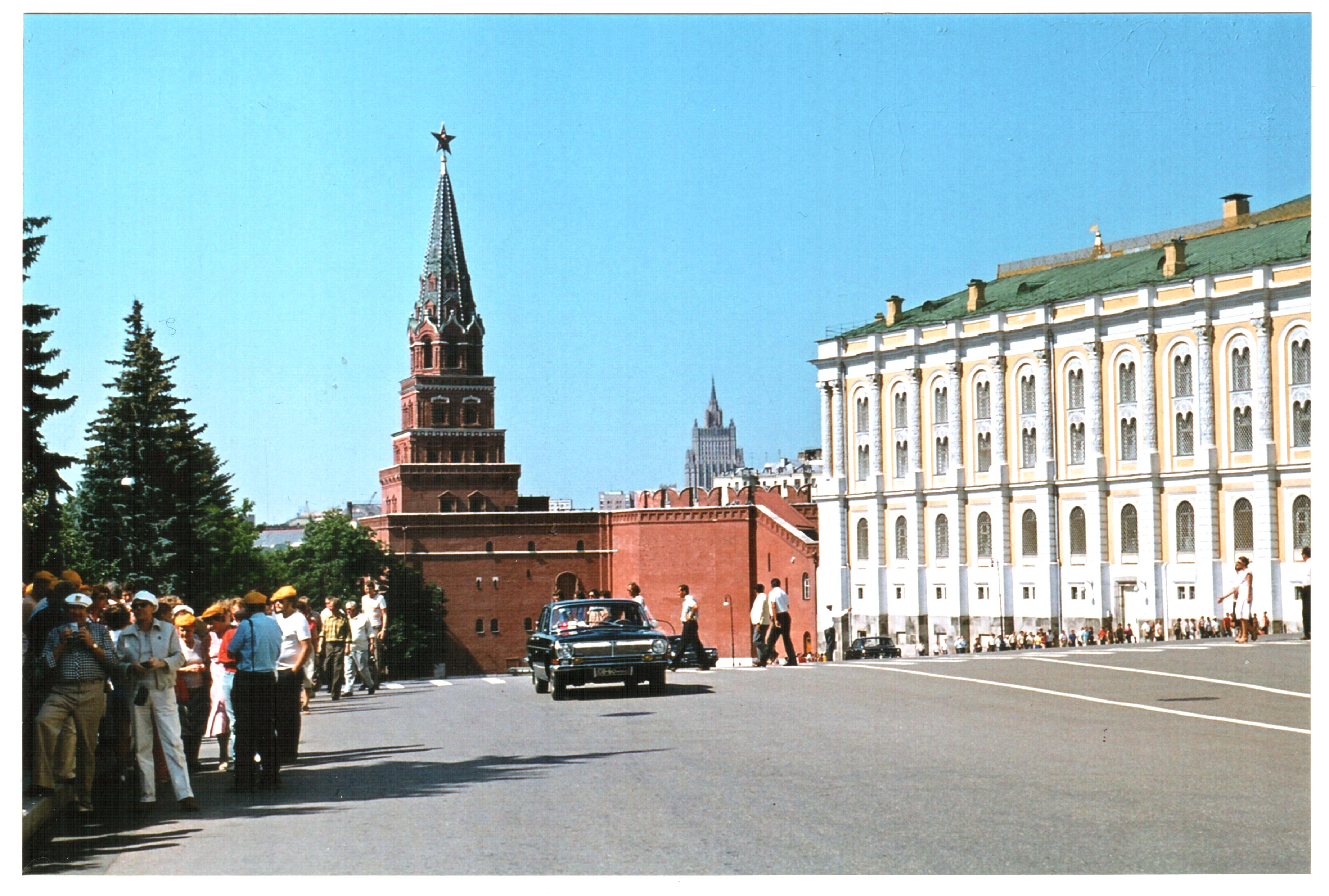 Moscow Olympic Games, 1980. Live in Moscow, in the Summer, 1980. I travelled with a Hungarian group of fans, from Budapest, Hungary. Published under Creative Commons in the Metapolisz DVD line.